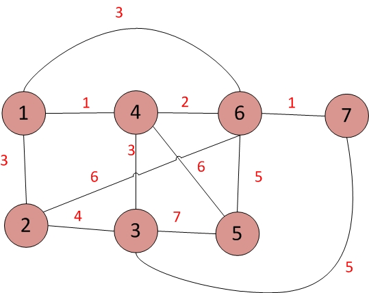 Đồ thị G trong lý thuyết đồ thị